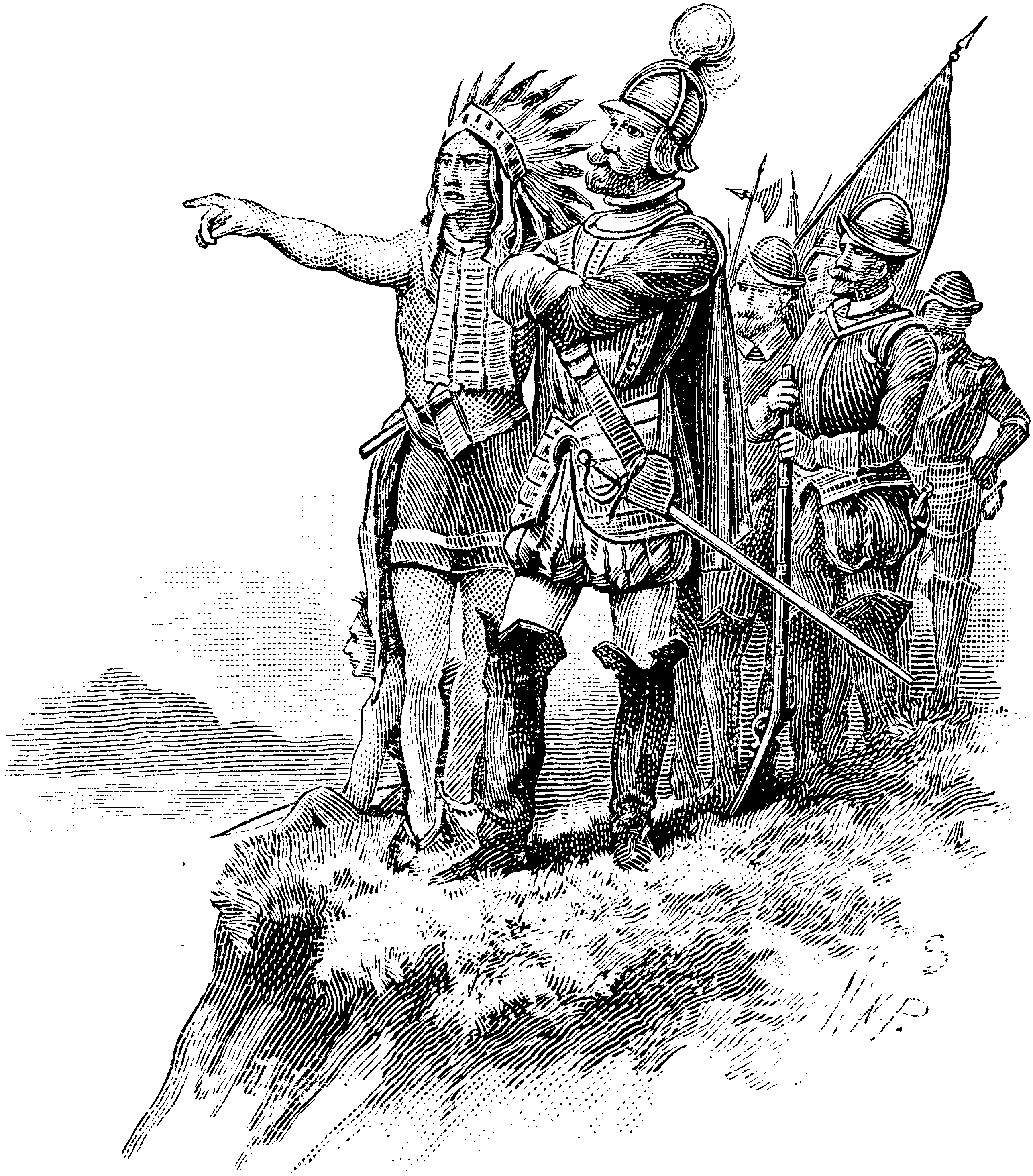 De Soto's First View of the Mississippi.